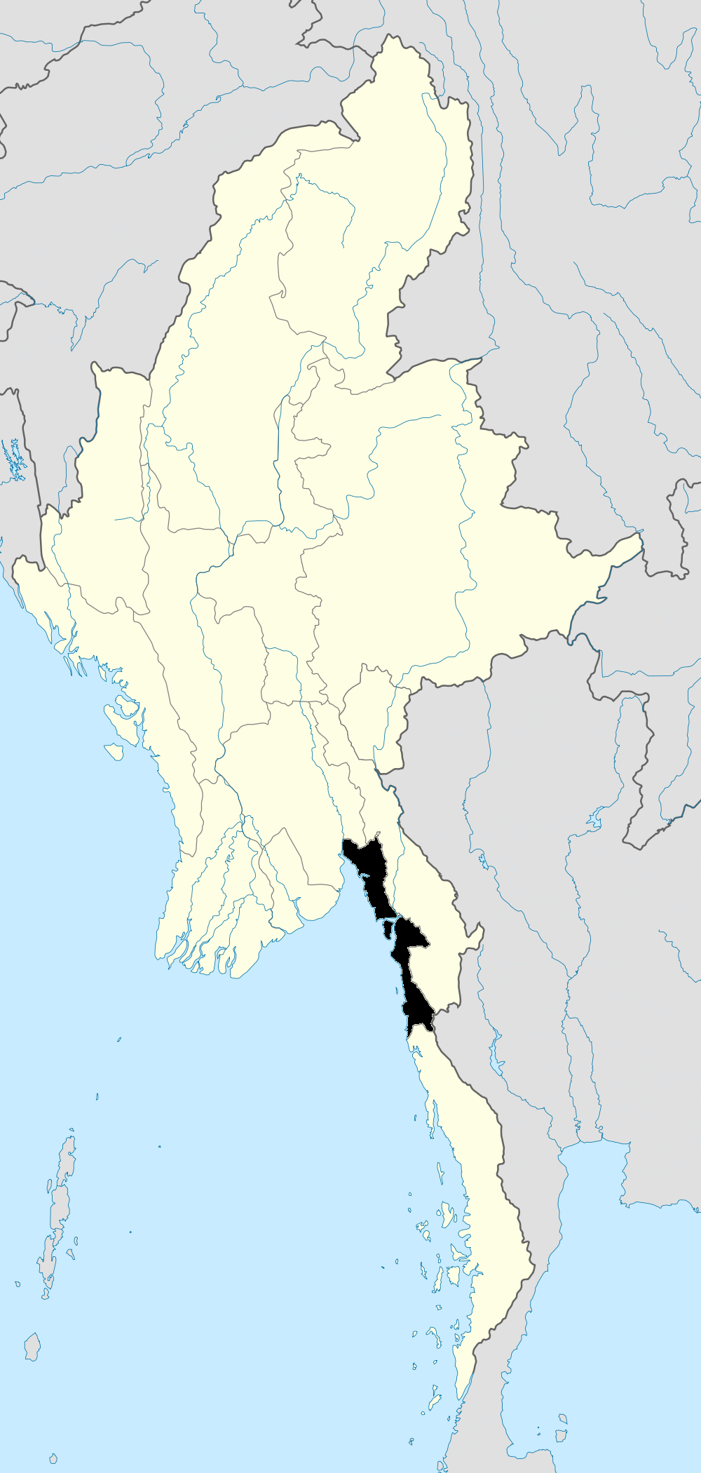 Map showing Mon State in Burma